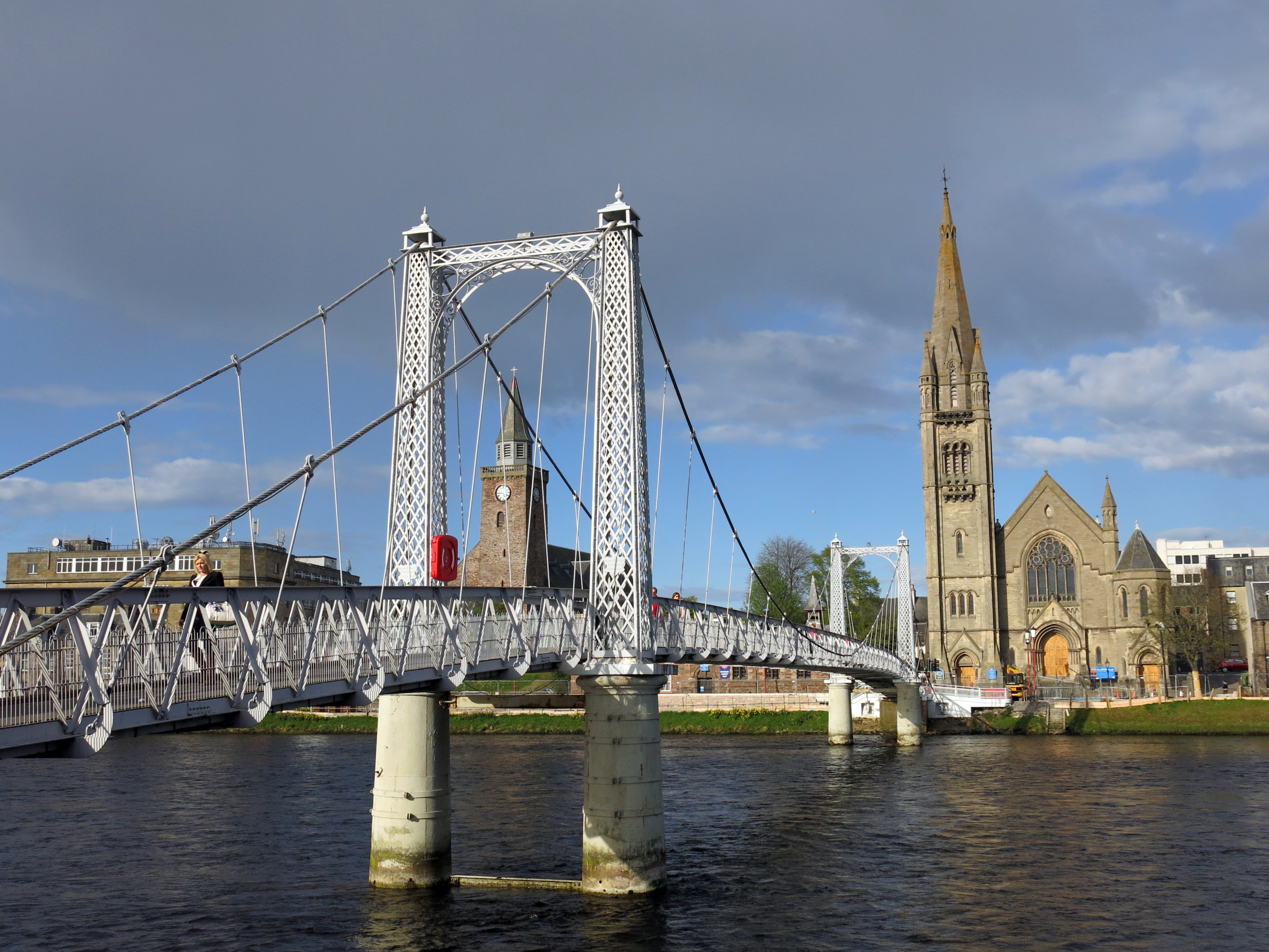 Inverness, Inverness, Bank Street, Free North Church Of Scotland.